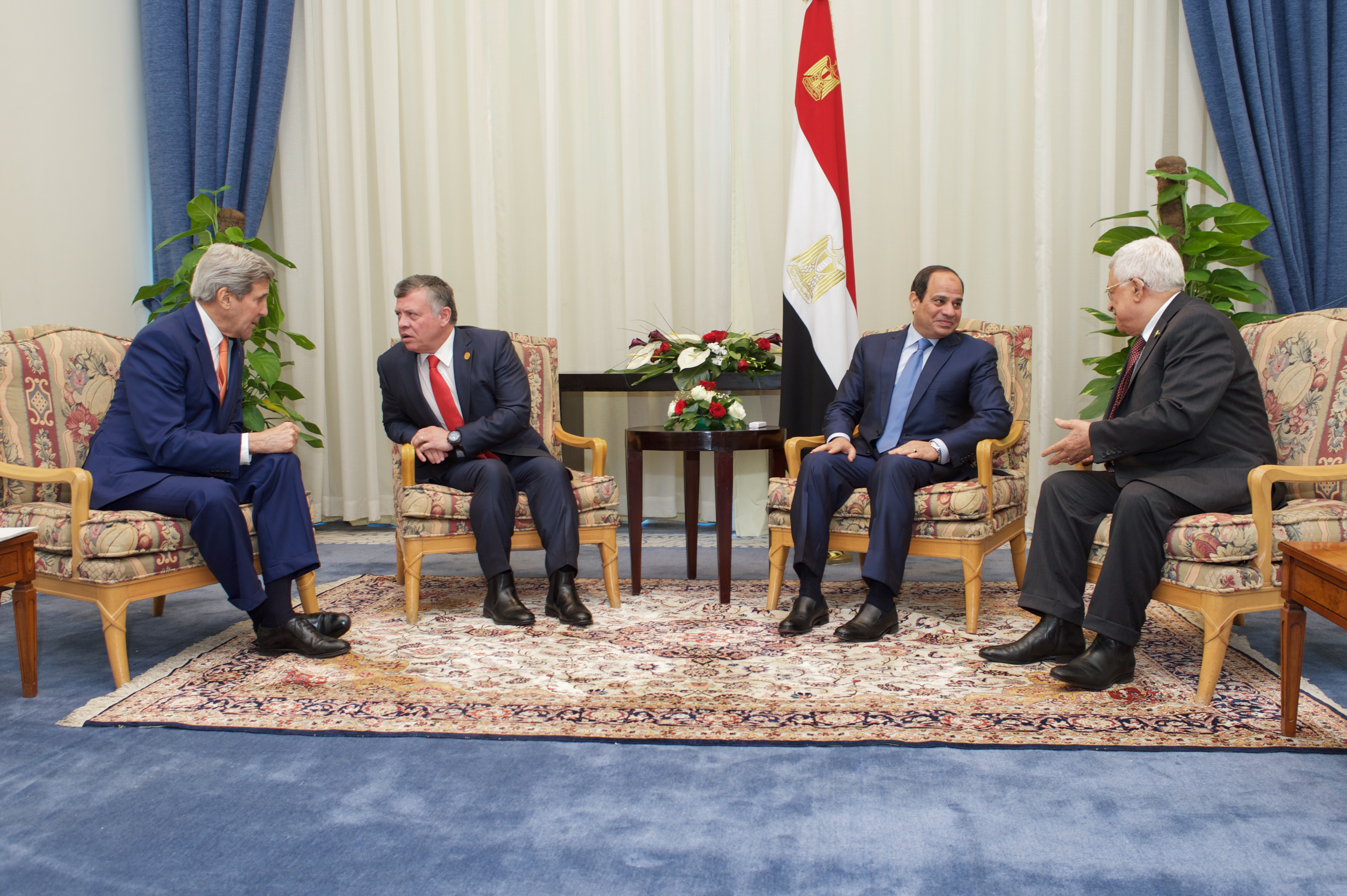 U.S. Secretary of State John Kerry chats with King Abdullah II of Jordan while Egyptian President Abdel Fattah al-Sisi speaks with Palestinian Authority President Mahmoud Abbas at the Congress Center in Sharm el-Sheikh, Egypt, on March 13, 2015, before a quadrilateral meeting and their attendance at an Egyptian development conference. [State Department Photo/Public Domain]